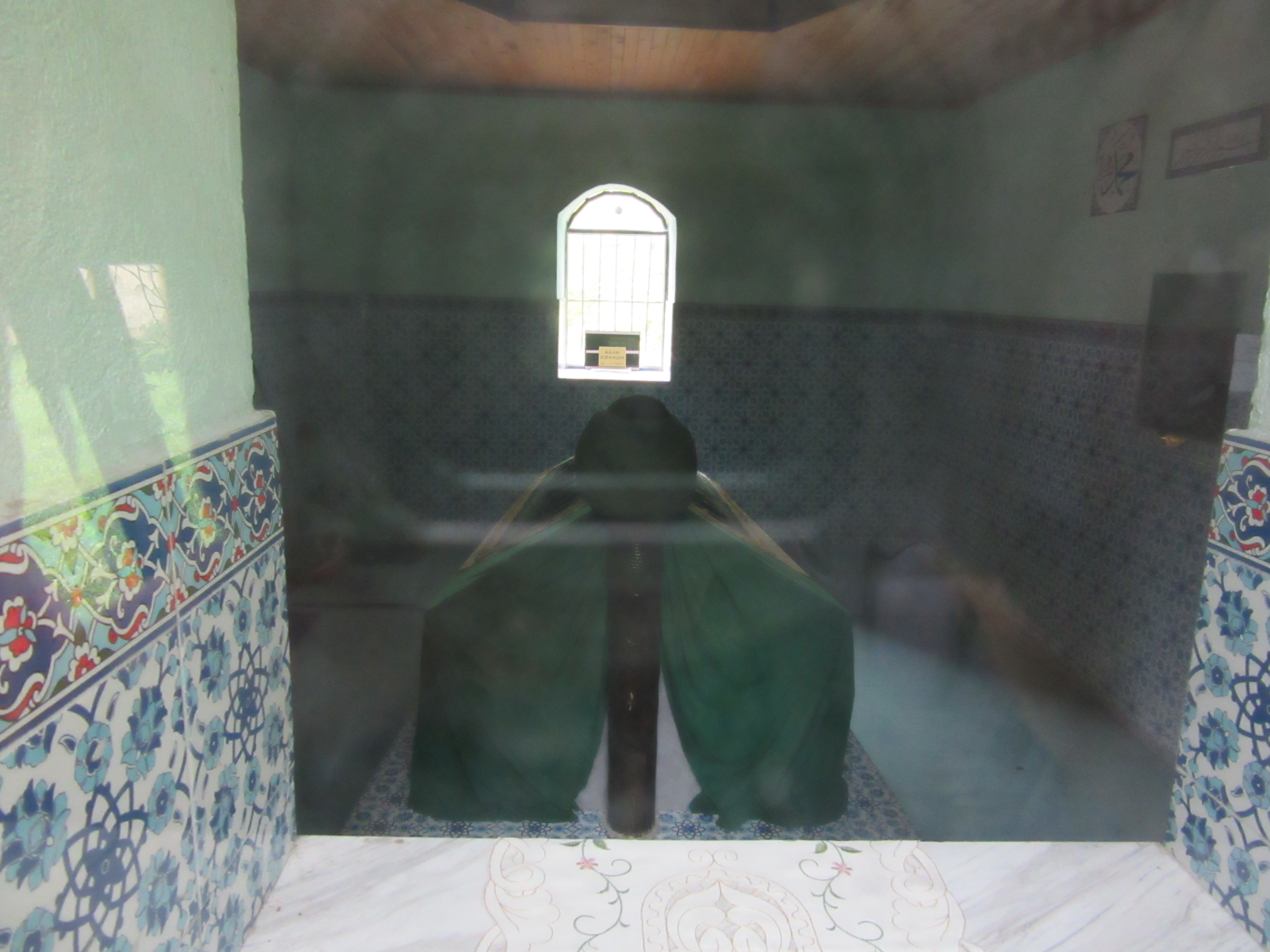 The interior with Sarcophagi of Bali Efendi in his Turbe